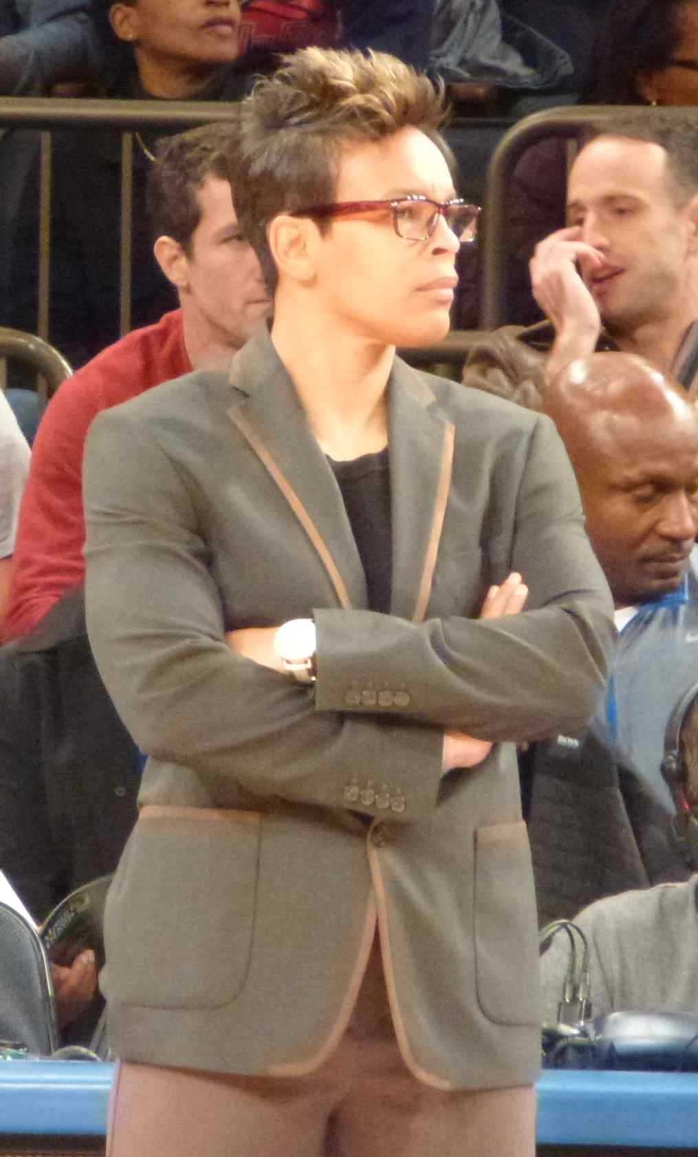 Teresa Weatherspoon, Louisiana Tech women's basketball head coach, standing on the sidelines at the 2012 Maggie Dixon classic, 9 December 2012